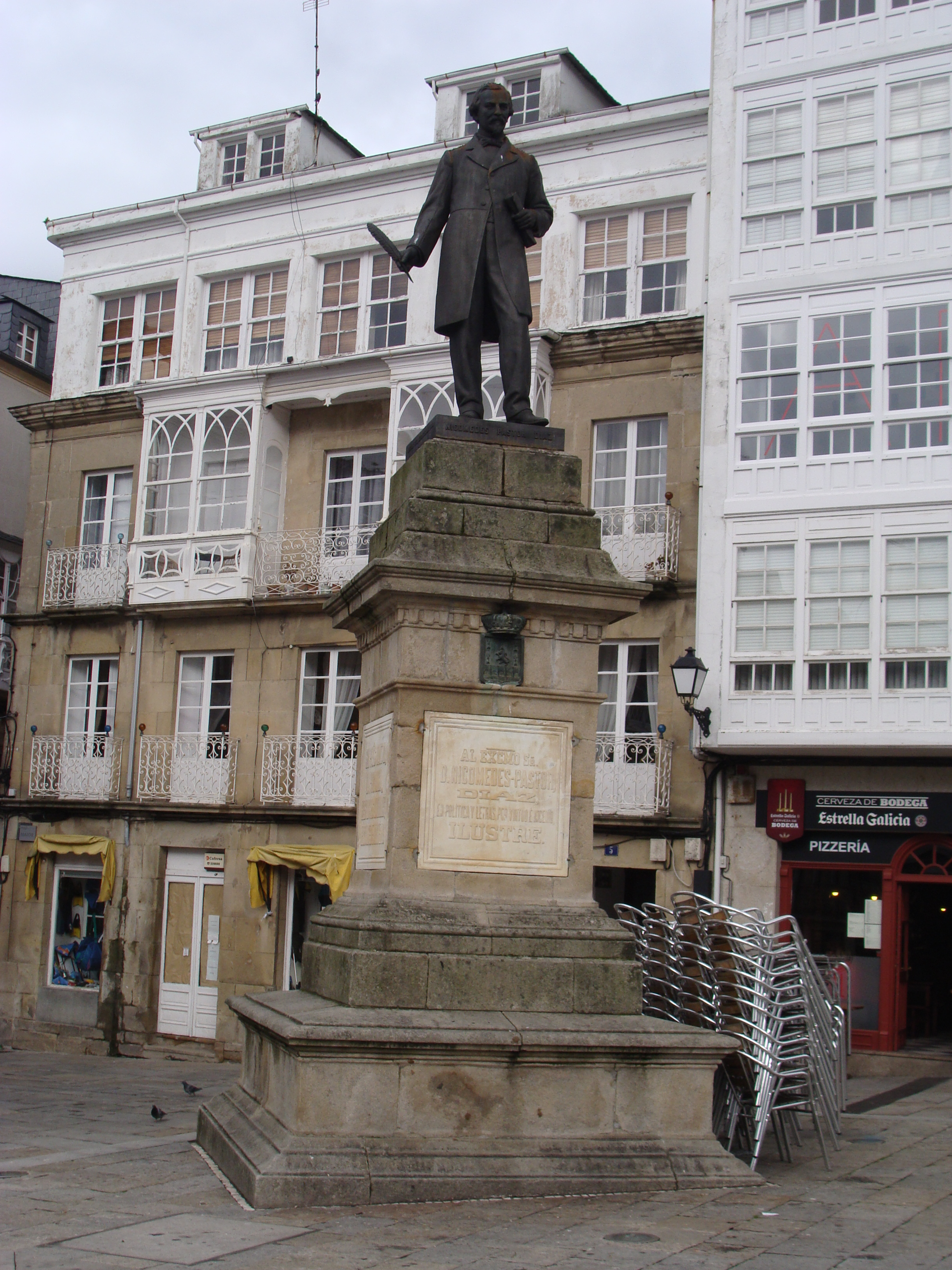 Statue of Nicomedes Pastor-Díaz in Viveiro, Lugo, Galicia, Spain